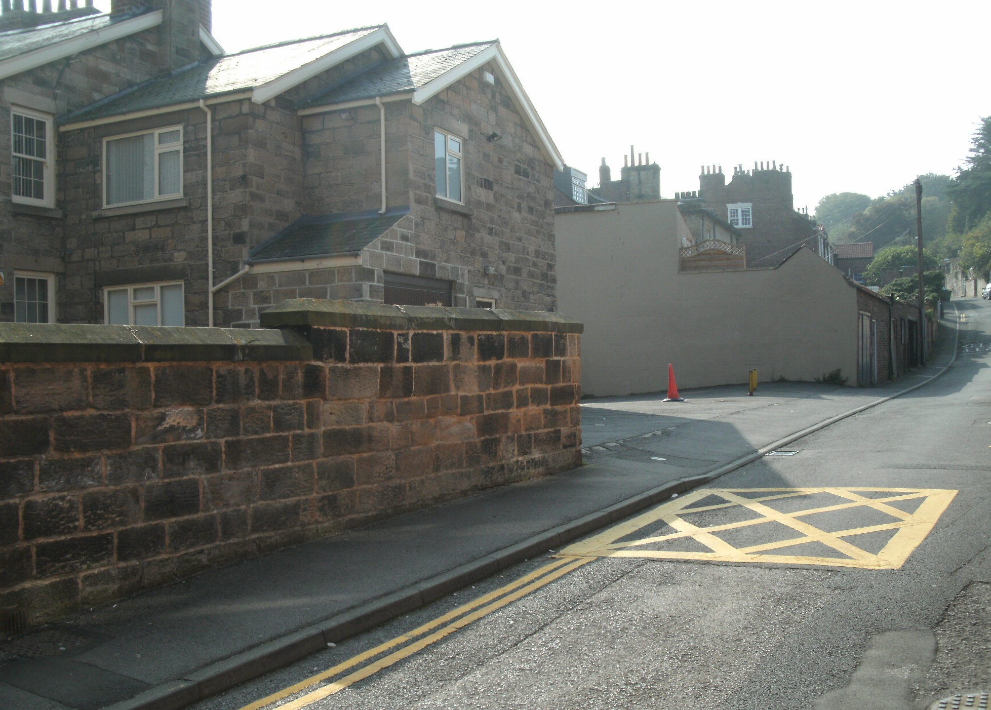 The rear of St. Hilda's Roman Catholic Church in Whitby, UK.